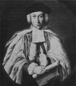 Portrait of the organist and composer John Alcock (1715-1806)